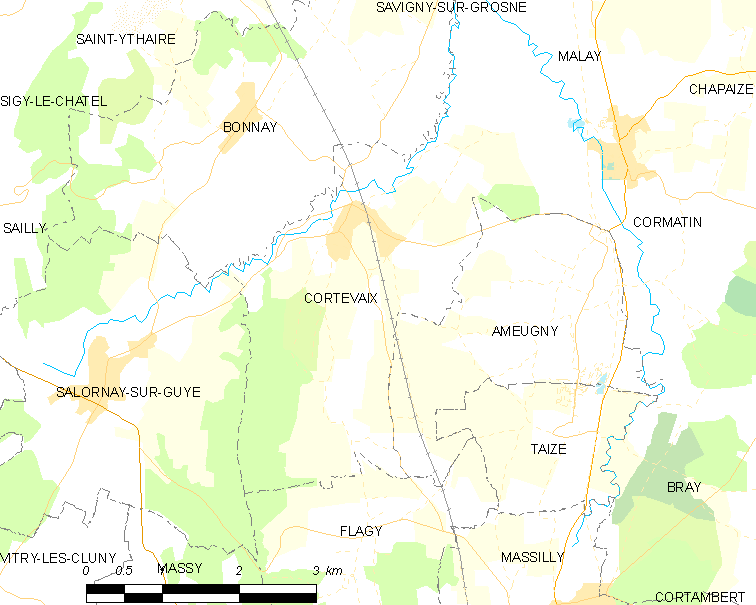 Map of French municipality